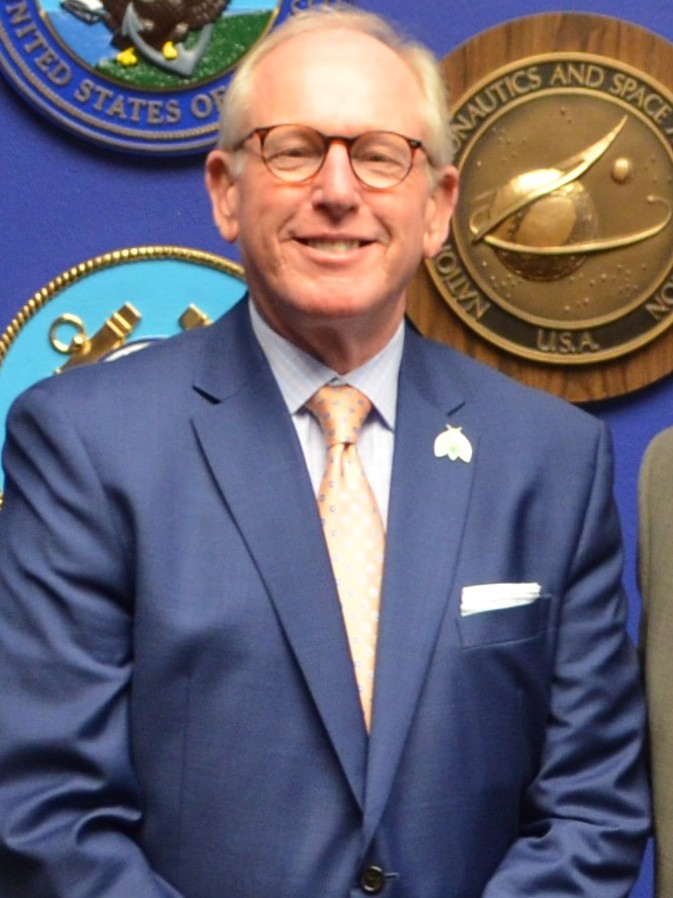 Decatur Mayor Tab Bowling